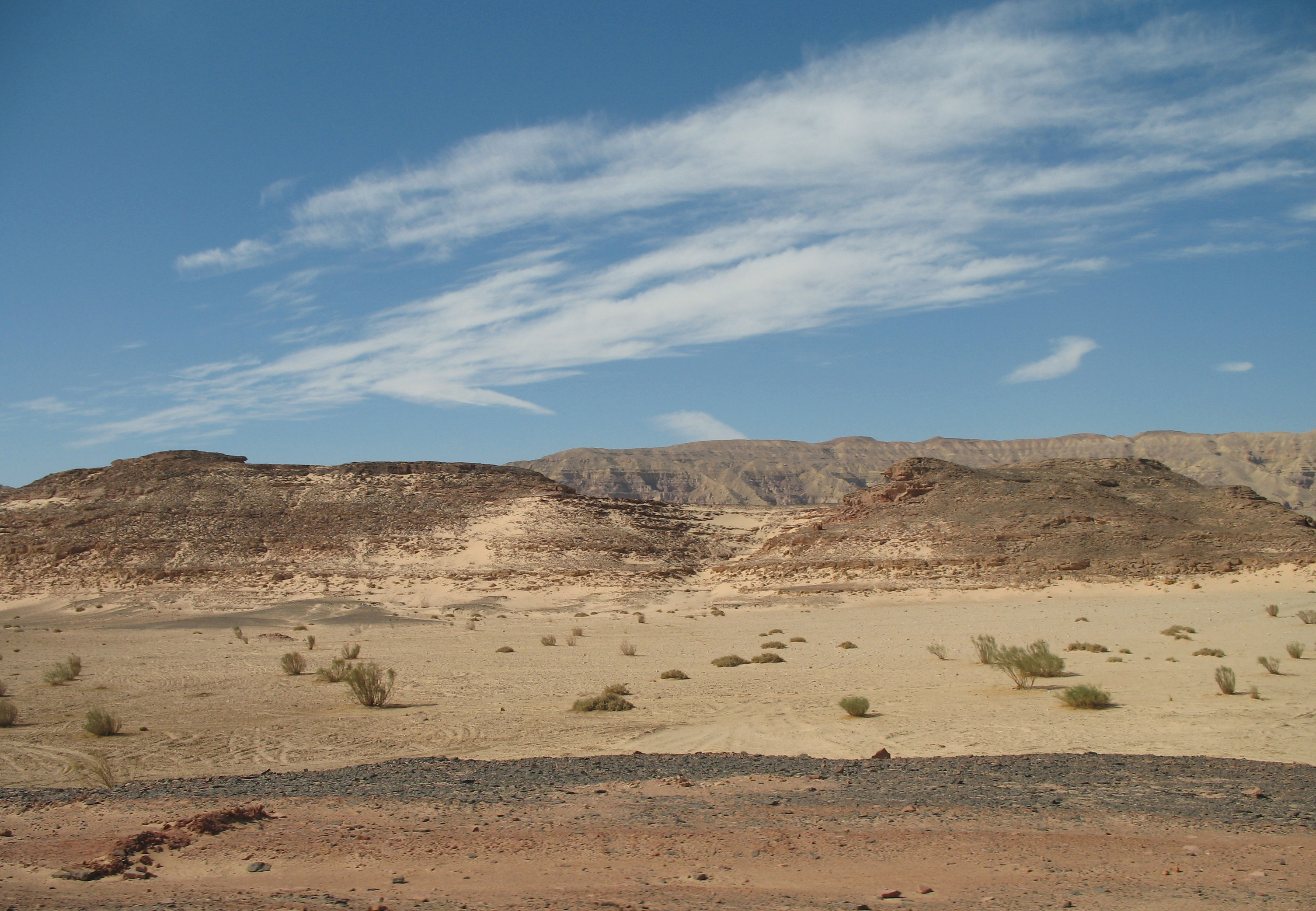 The Sinai desert in Egypt